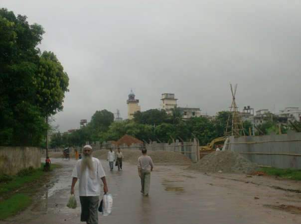 This road goer to Shaheenbag mosque from Old Airport road.